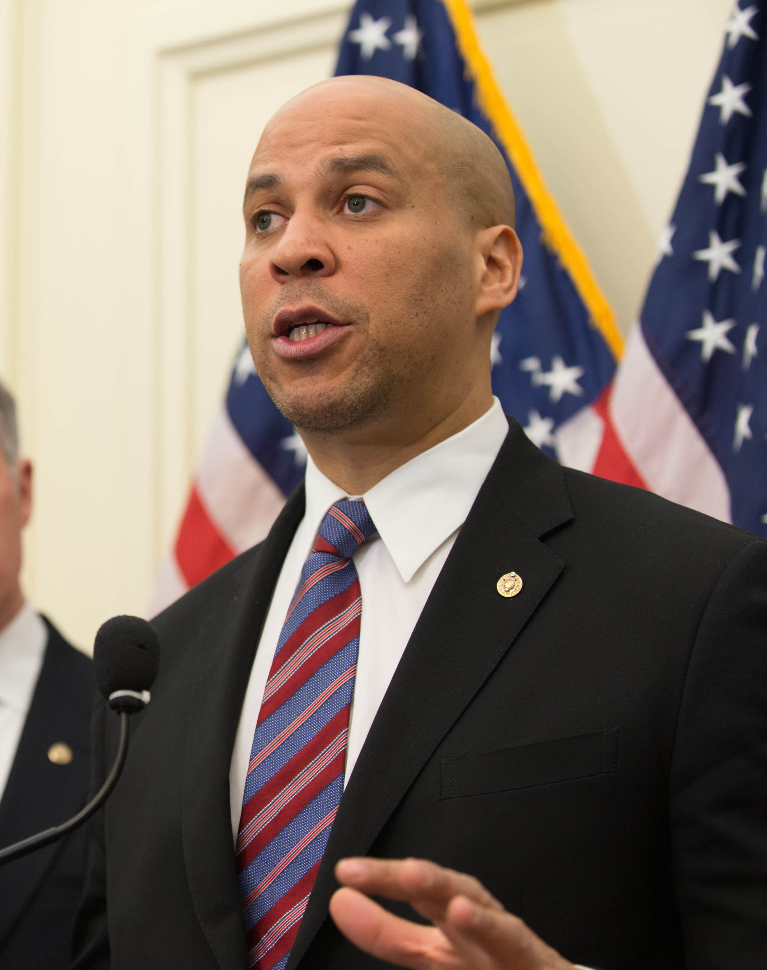 US Senator Cory Booker (D-NJ) with fellow Senate Democrats pushing for a raise in the Minimum Wage